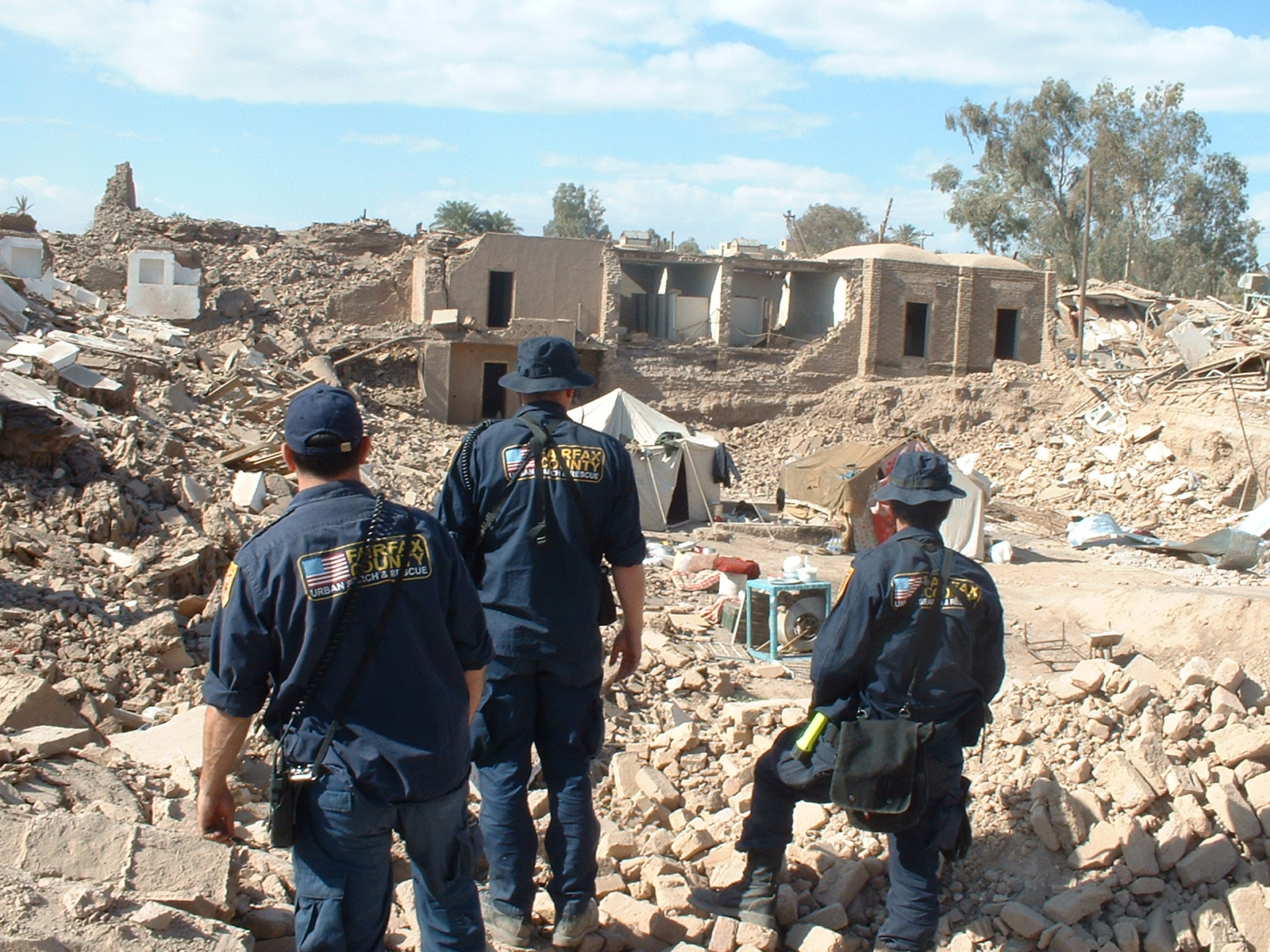 Bam, Iran, December 23, 2003 -- Fairfax County Urban Search and Rescue squad inspect earthquake damage in Bam, Iran. Photo by Marty Bahamonde/FEMA photo date is aprox.